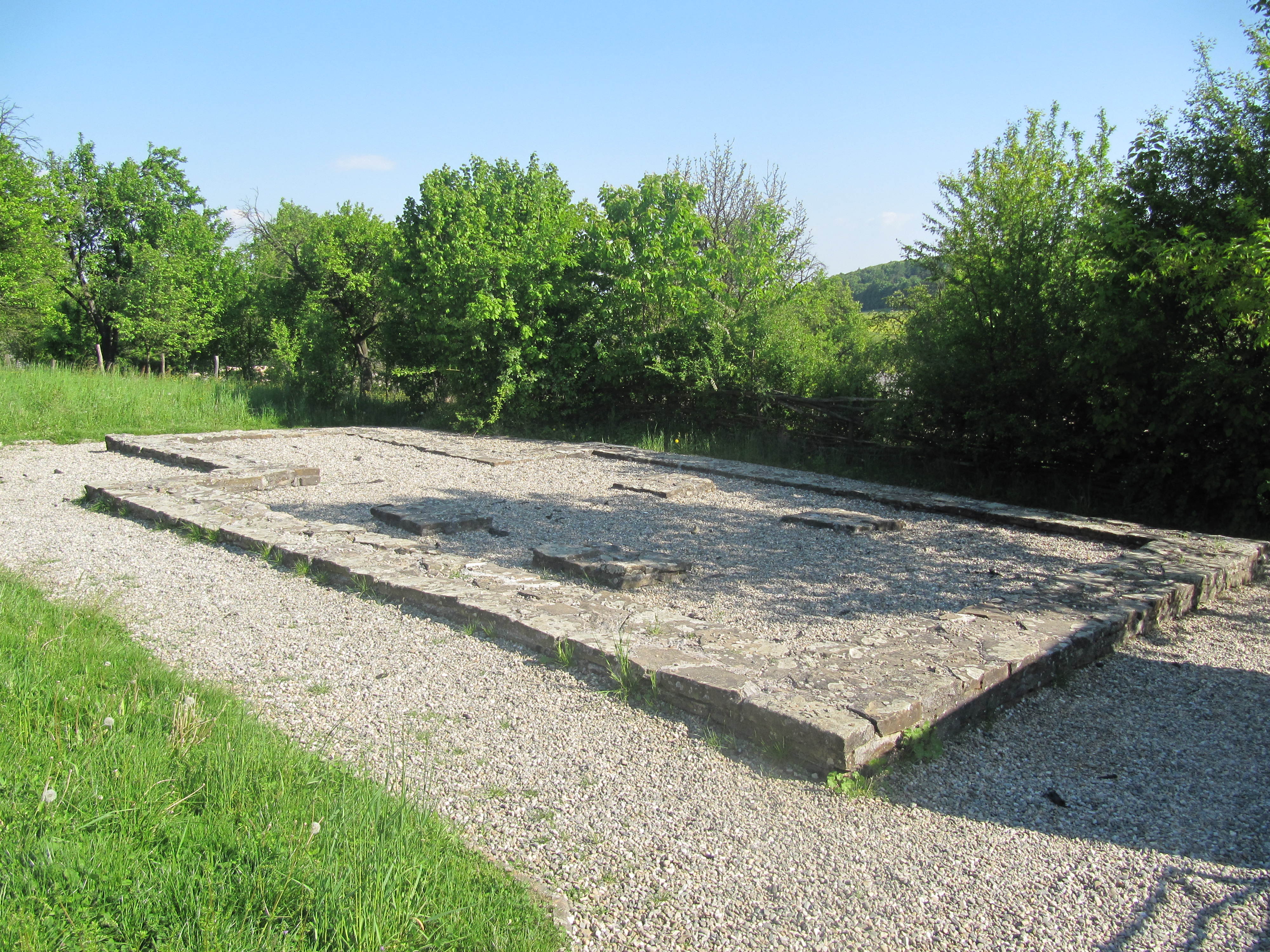 Modrá in Uherské Hradiště District, Czech Republic. Basics of a church of a irish-scottish-mission from 9th century. Probably remnant of the oldest brick building in the Czech Republic.